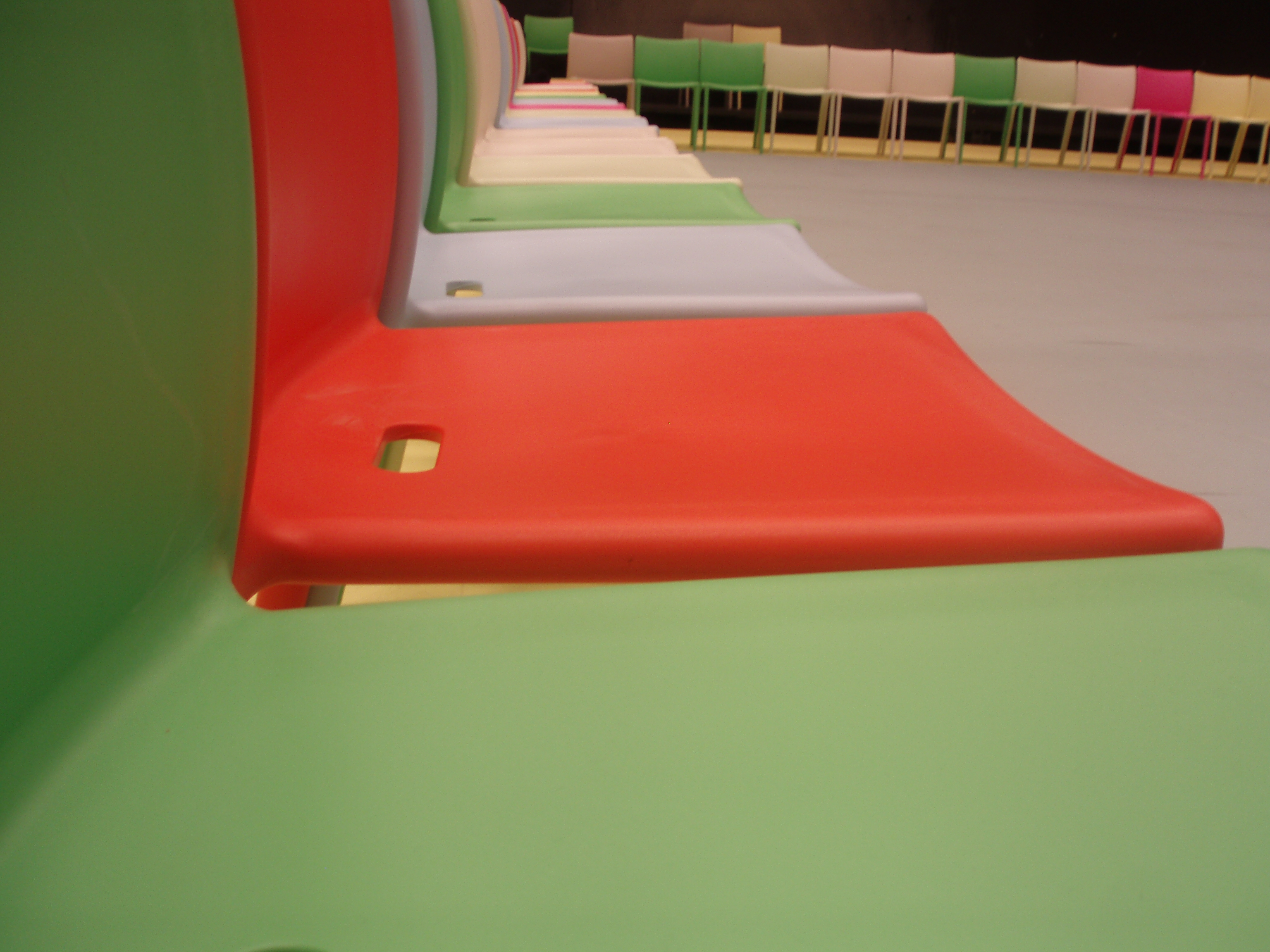 Scenery from the play The Mental States of Gothenburg at Angereds theatre (Angereds teater) in Gothenburg, Sweden.